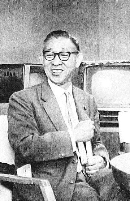 Konosuke Matsushita